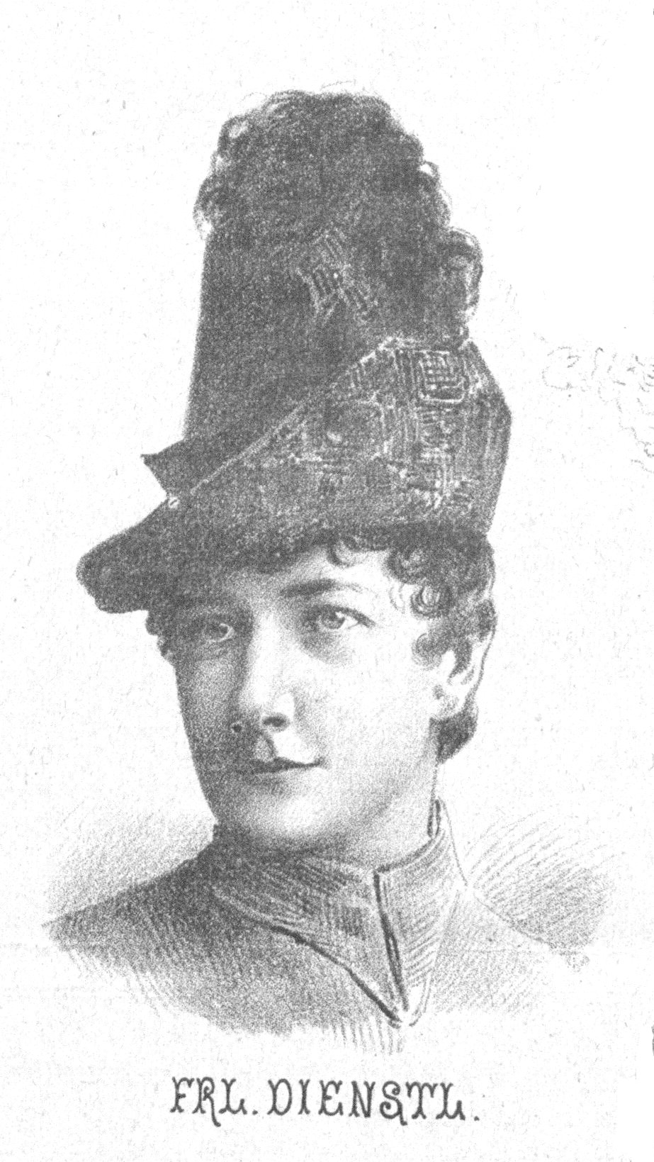 Portrait of Betty Dienstl (1864-??), Austrian actress.